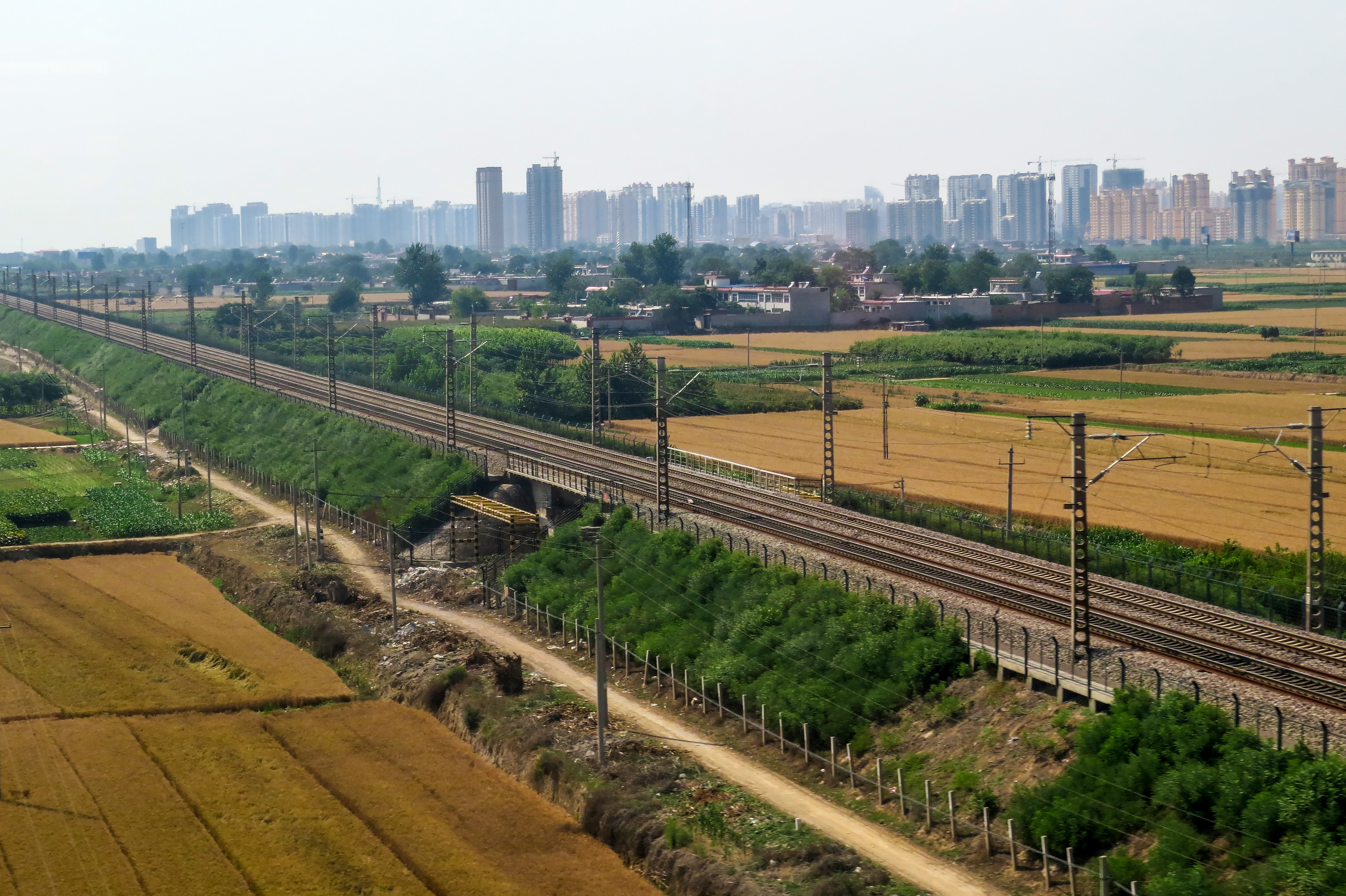 Taken from G662 on Beijing-Guangzhou HSR.